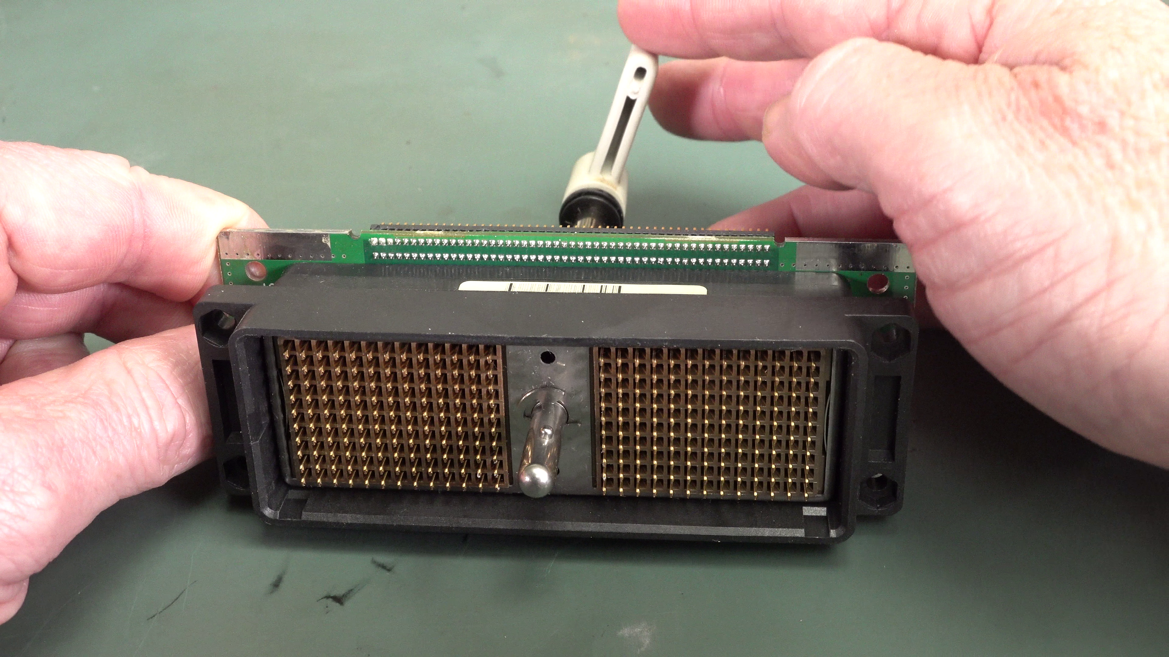 Zero Insertion Force Connector from a Philips C5-2 Ultrasound probe, with lever actuation. The pins are forced outward when the lever is rotated.